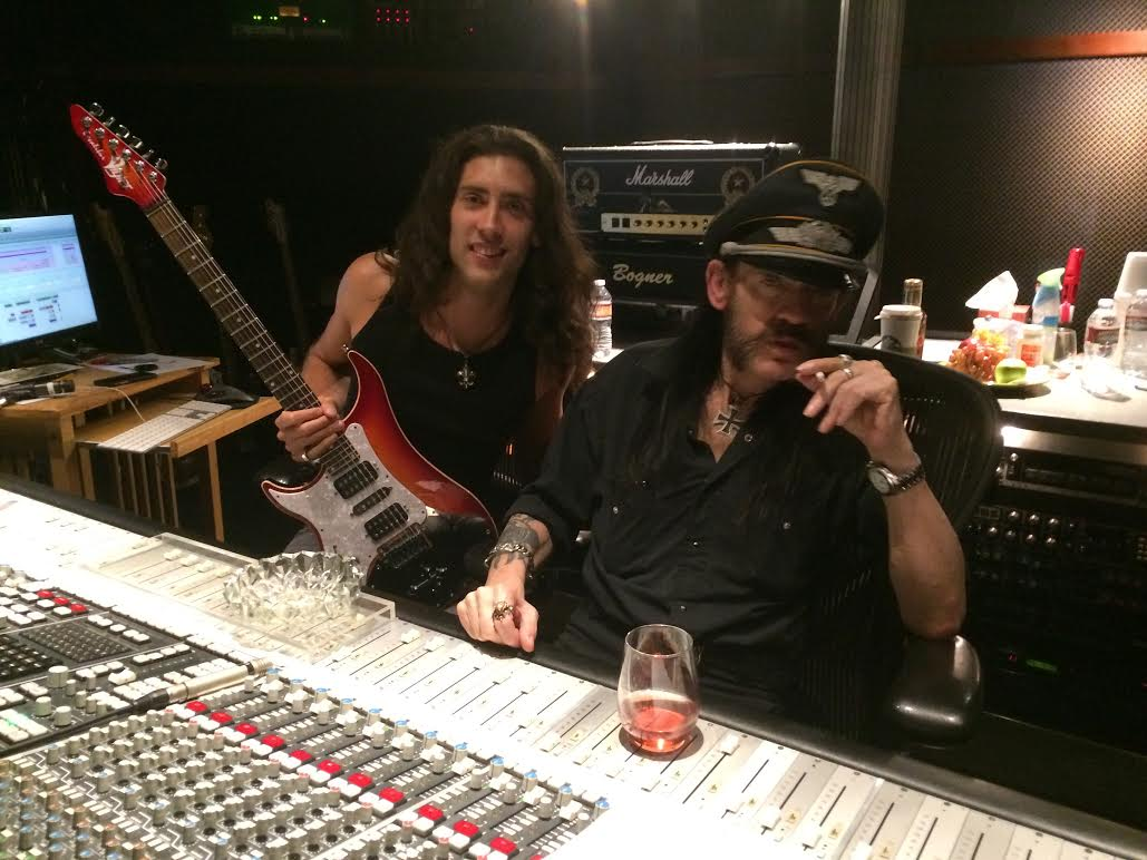 Chris Declercq on Left, Lemmy Kilmister on Right